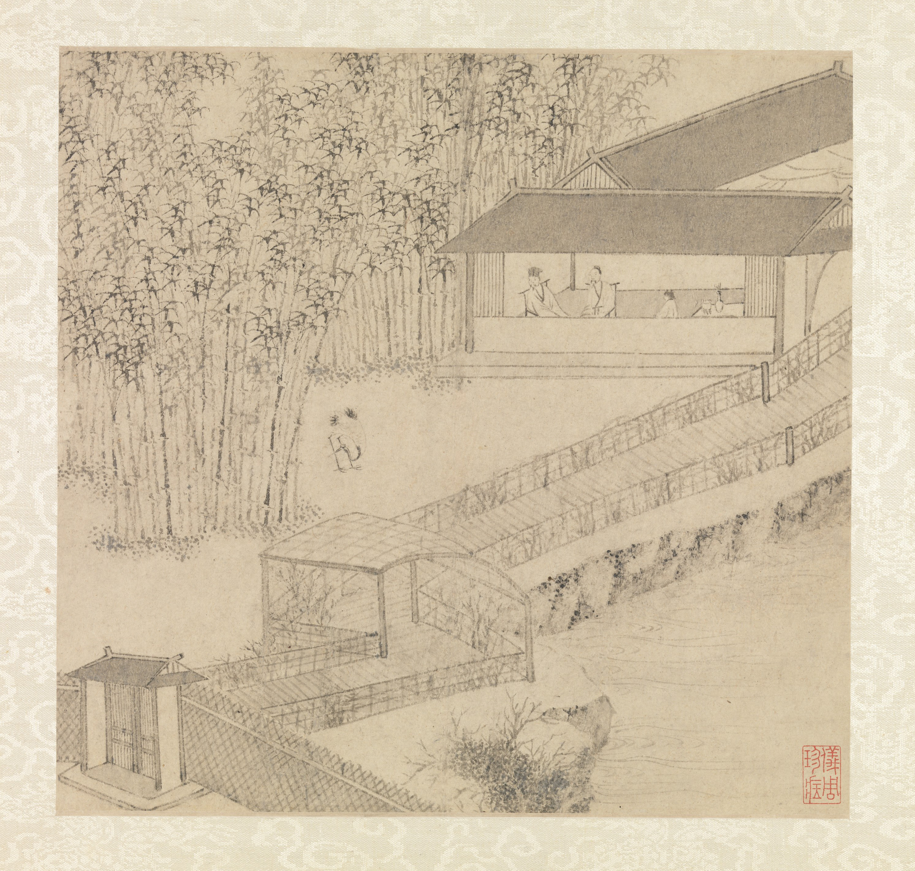 Album of eight painted leaves with facing leaves inscribed with poems. Gift of Douglas Dillon, 1979.